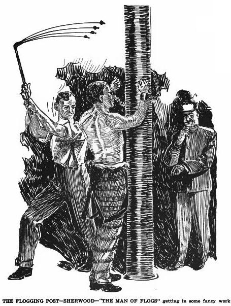 Depiction of a flogging at Oregon State Penitentiary